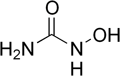 chemical structure of hydroxyurea